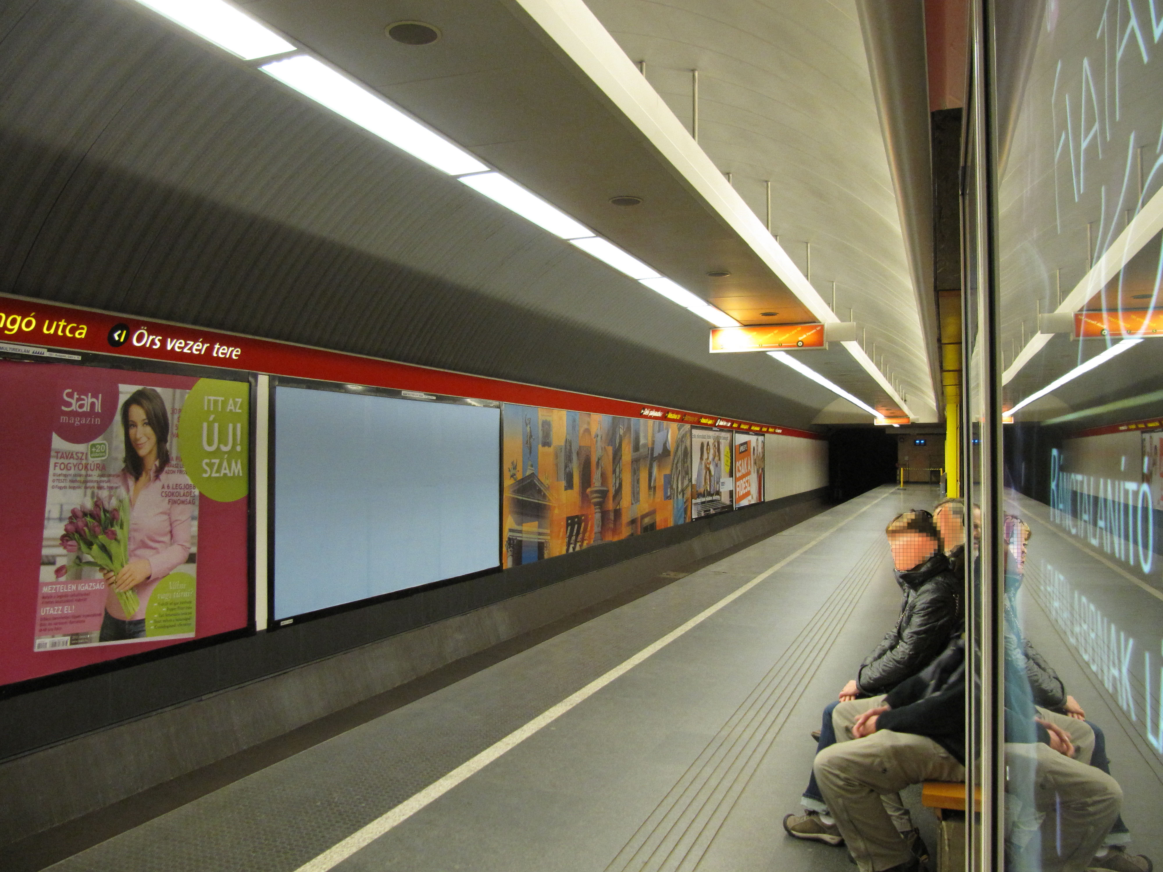 Deák Ferenc tér, Budapest Metro